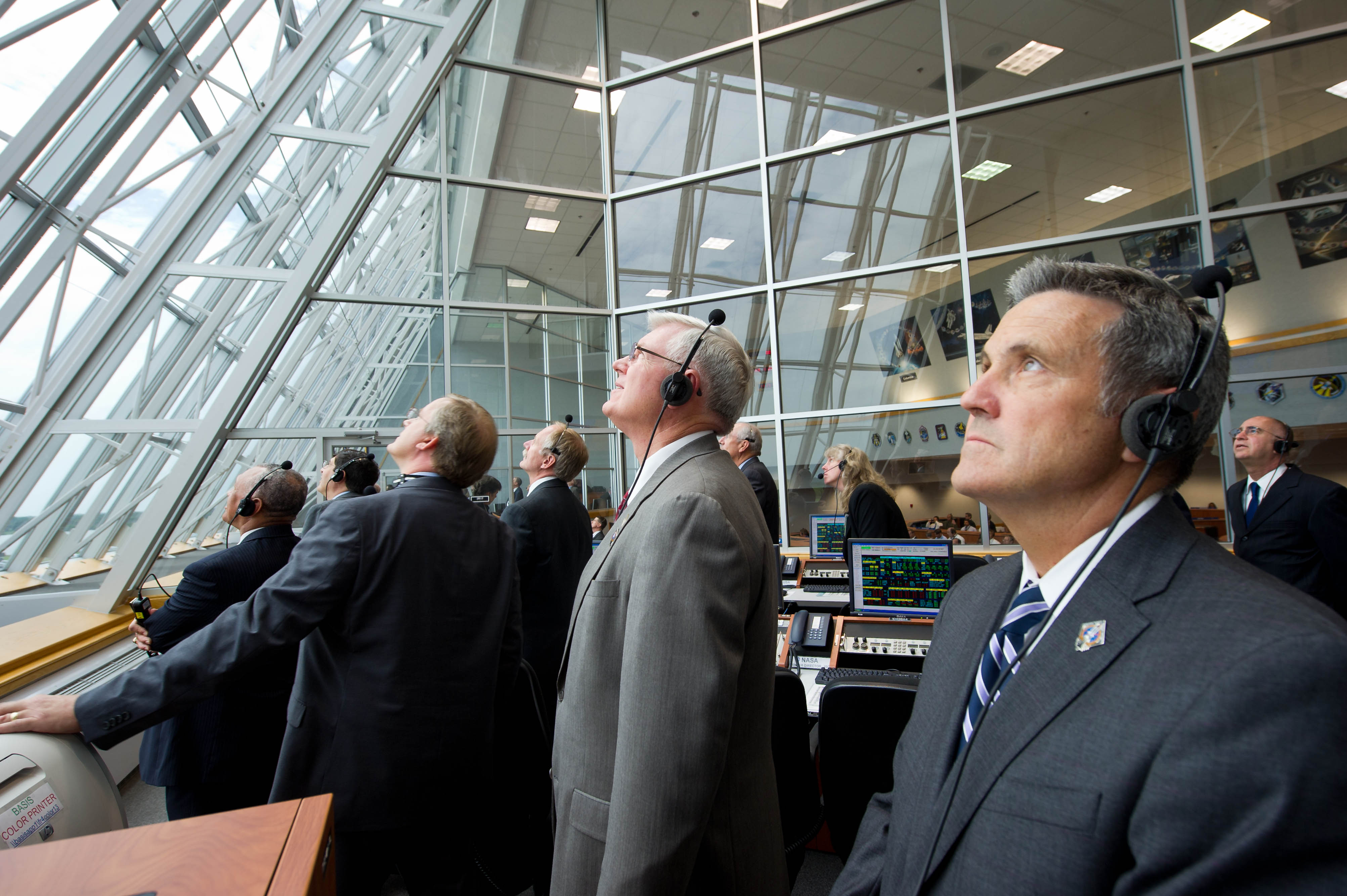 NASA Kennedy Space Center Director Robert Cabana, right, and other management look on from Firing Room Four of the Launch Control Center (LCC) as space shuttle Atlantis launches from pad 39A on Friday, July 8, 2011, in Cape Canaveral, Florida.